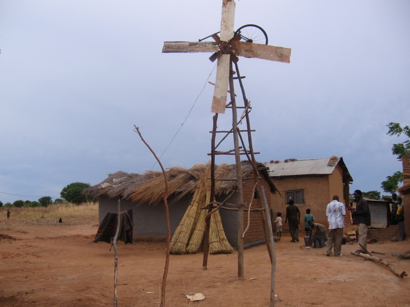 I believe this is a shot of one of William's first windmills. This was shot by Tom Rielly after TEDGlobal in Tanzania. Find out more on William's Windmill blog in Malawi.